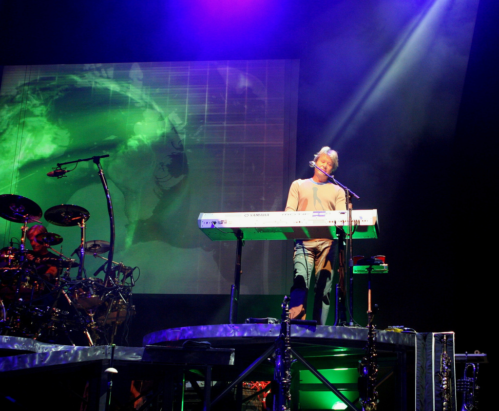 Robert Lamm, American keyboardist for the band Chicago